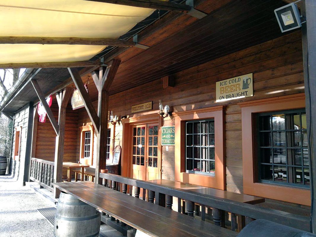 Cowboy Club Munich - „Longhorn Saloon“ - external view